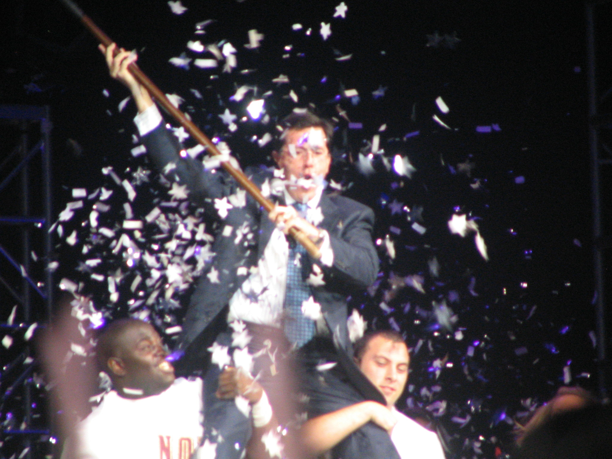 Stephen Colbert at the FSU Pow Wow: November 17, 2006. When he first came out on the stage he pounded his fist in the air and said: "Are you ready for Stephen Colbert's Real Estate Seminar" "Oh, wait, what is this? Isn't this Stephen Colbert's Real Estate Seminar? It's not? Oh... oh the Pow Wow! Oh shit, I thought that was tomorrow! Ok, hold on, let me give you a better entrance." Then he went backstage and came back on the shoulders of two male cheerleaders waving the American flag.Stephen Colbert at FSU Pow Wow